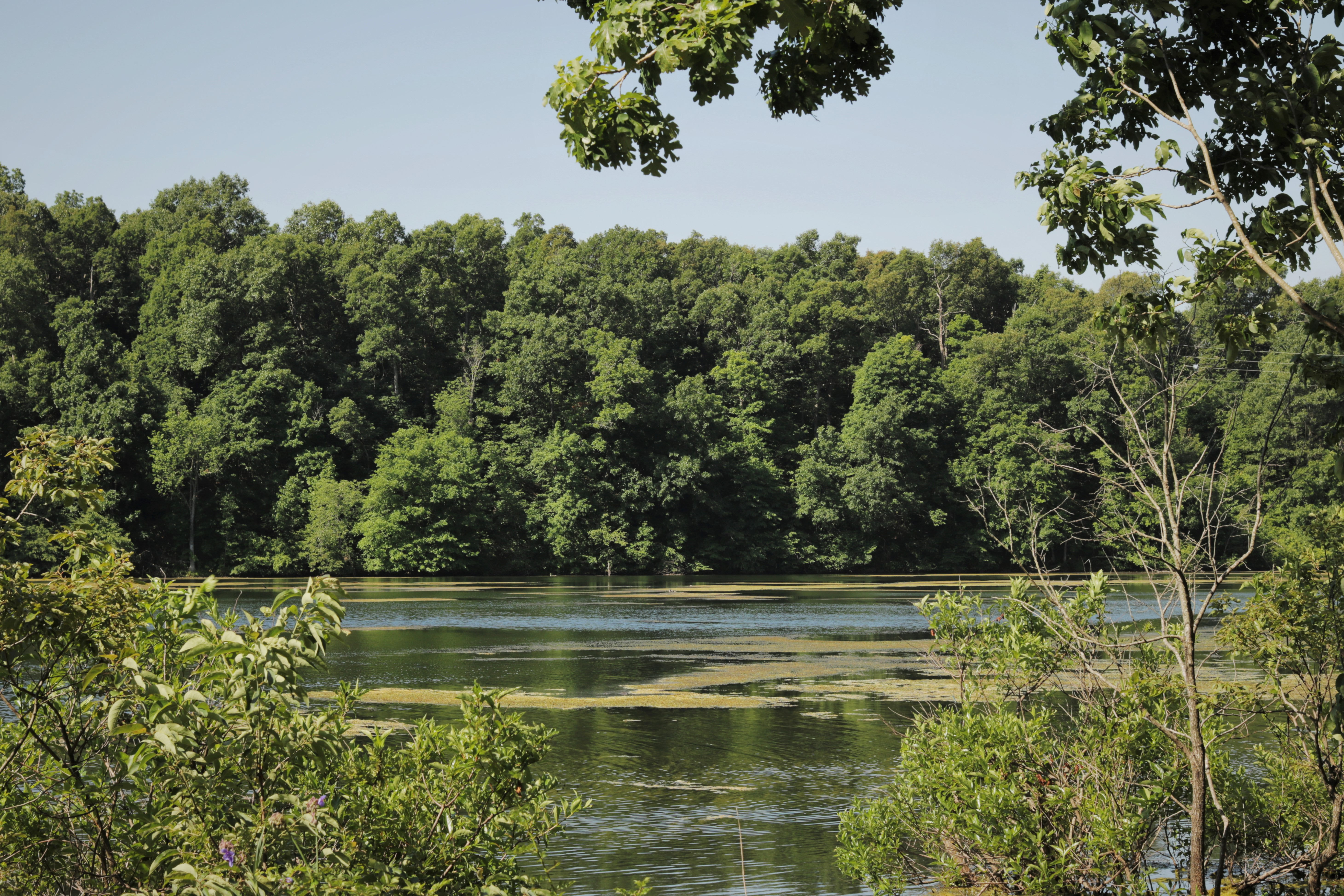 Photo of Fellows Lake in Missouri. Taken in late spring.